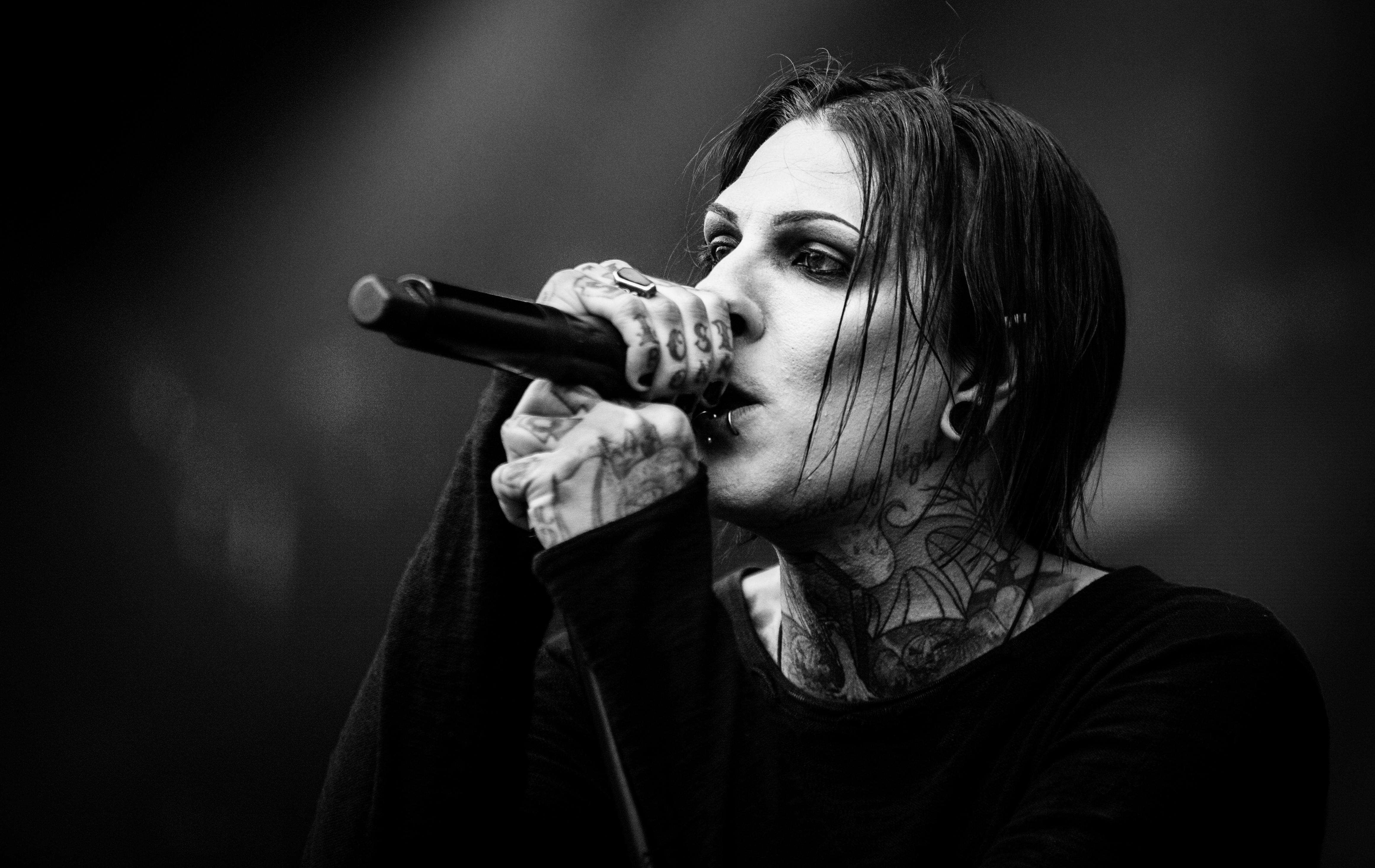 Motionless in White - Rock am Ring 2017